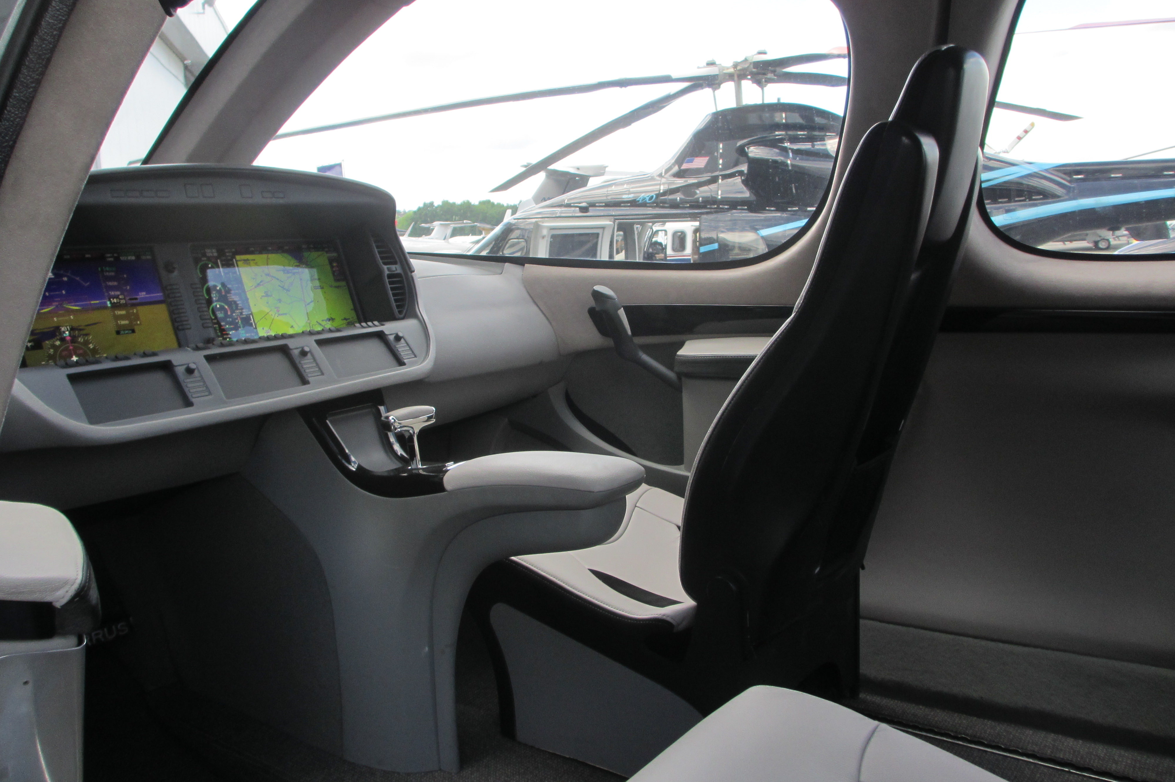 Cirrus Vision SF50 cockpit